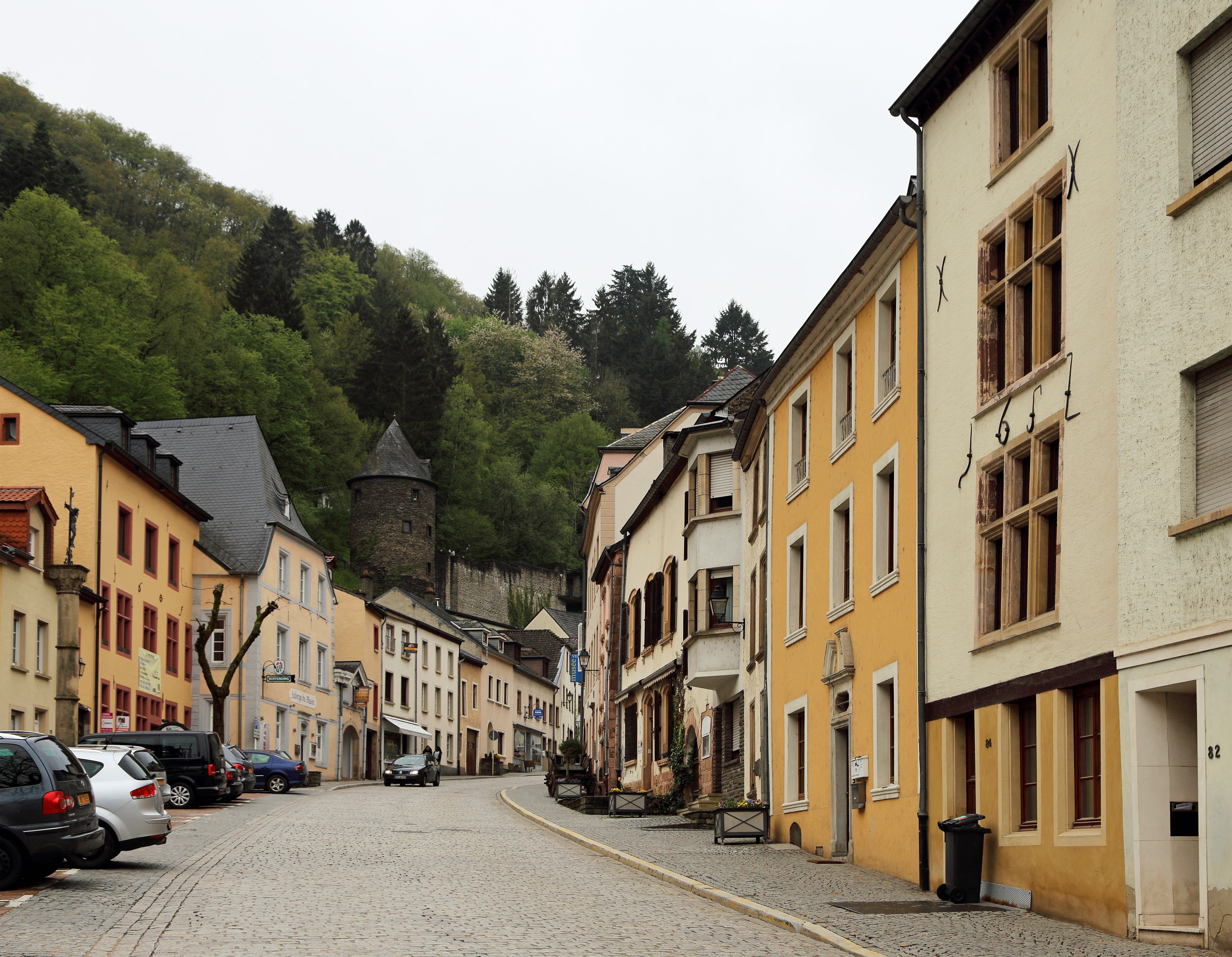 Vianden (Grand Duchy of Luxembourg): the Grand'Rue (Main Street)